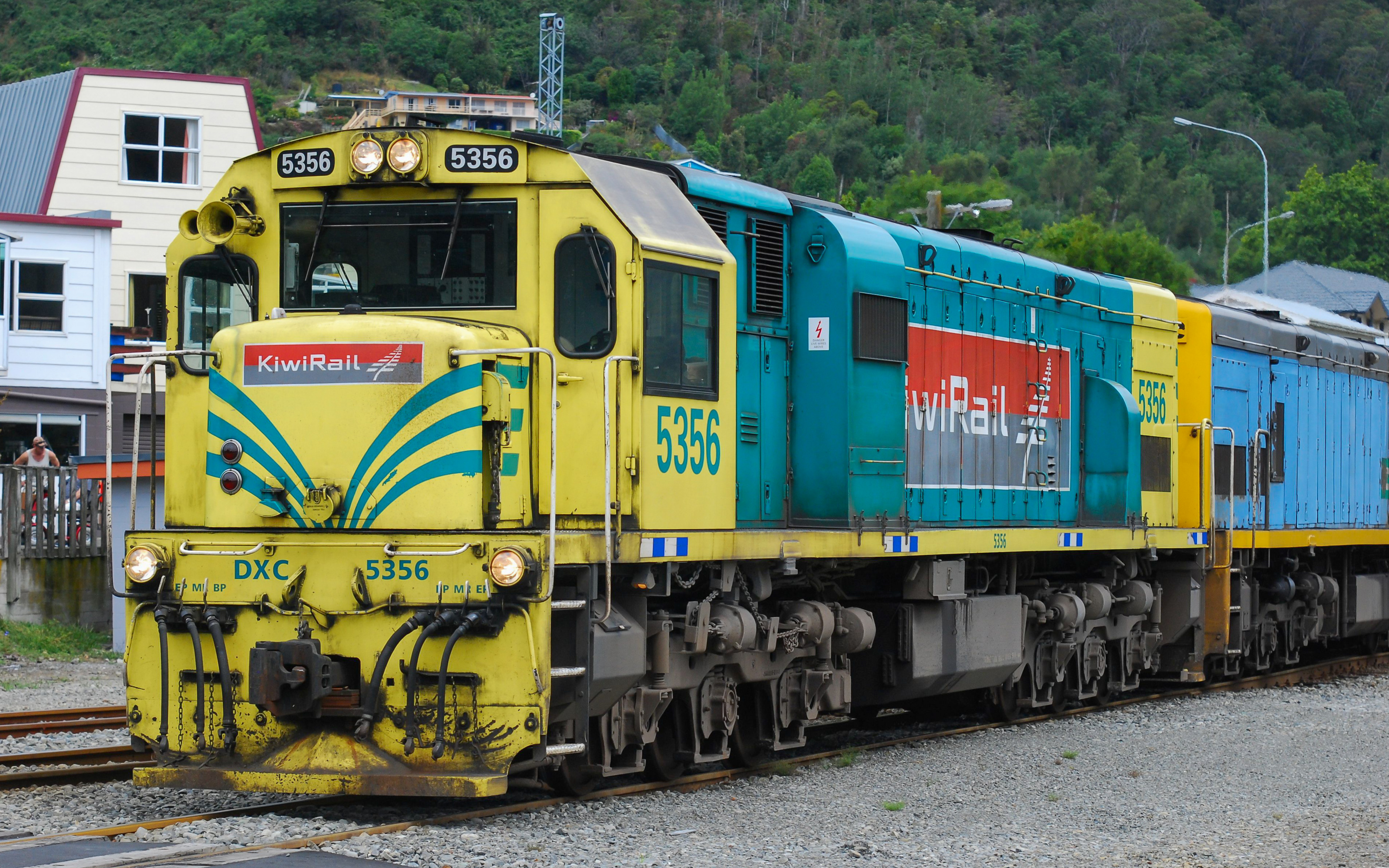 A New Zealand Railways DXC Class locomotive, DXC 5356